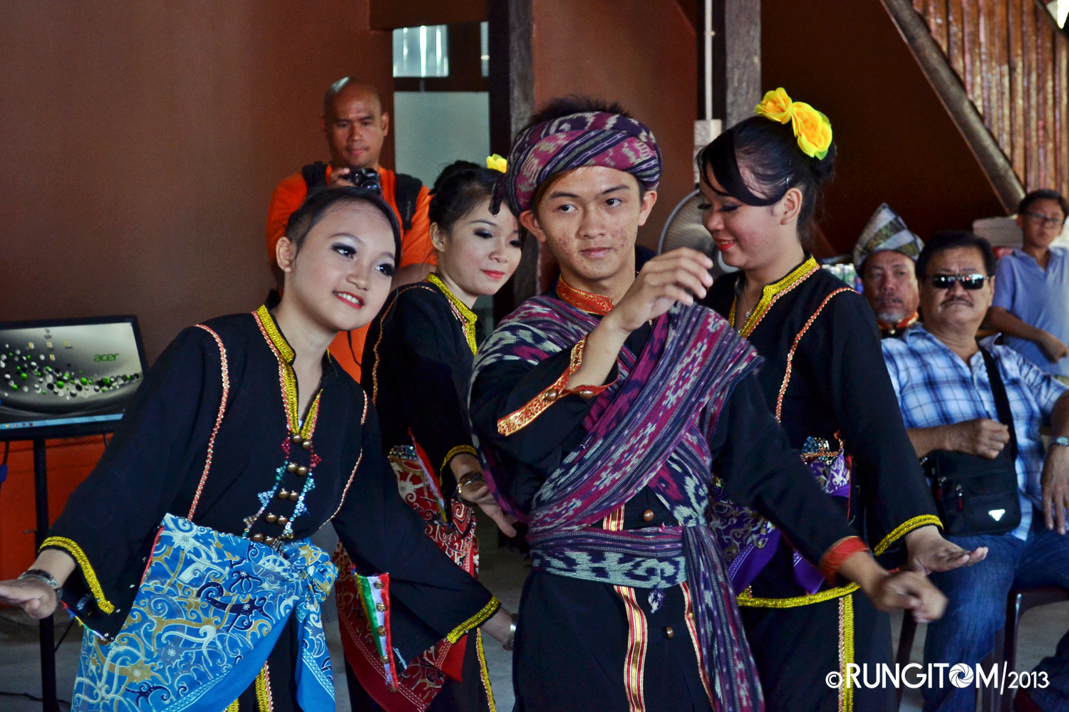 A unique dance from Dusun Tatana.